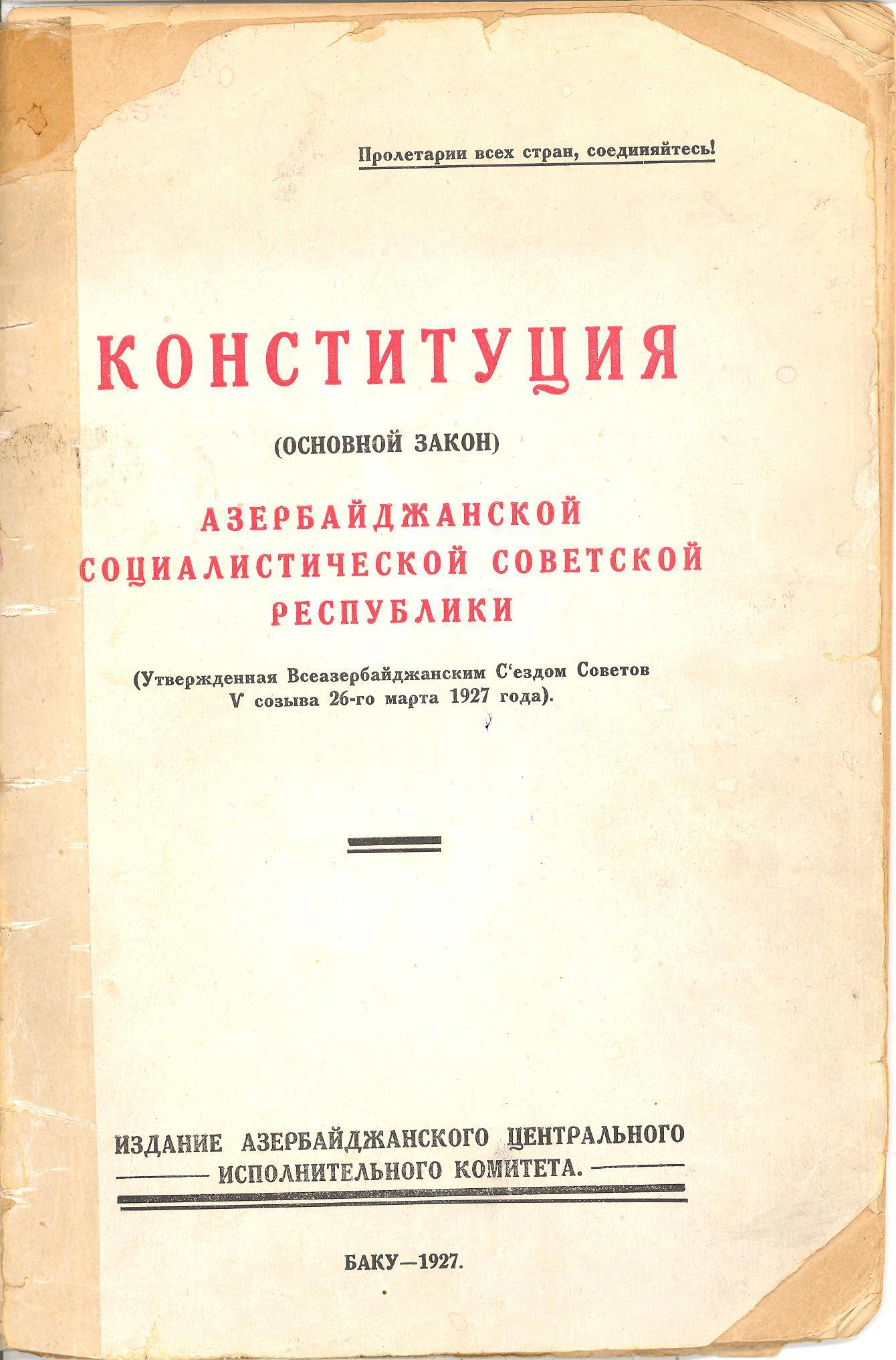 The cover of the 1927 Constitution of the Azerbaijan Socialist Soviet Republic.